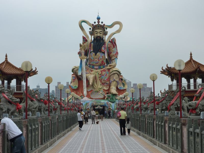 Kaohsiung lotus pond Jade Eperor Statue.